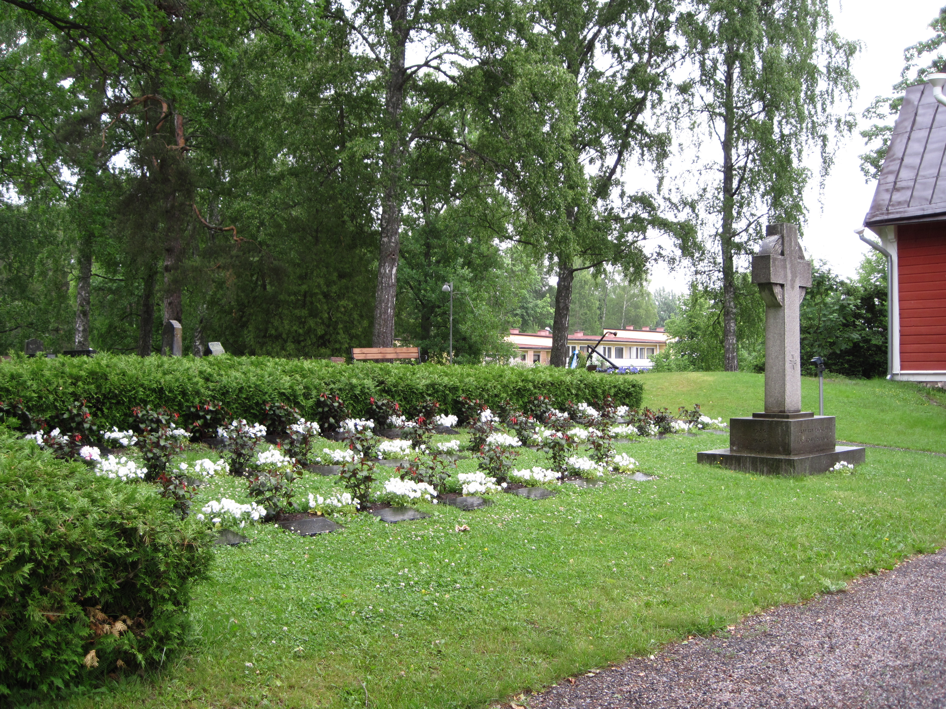 Military cemetary at Särkisalo Church in Salo, Finland